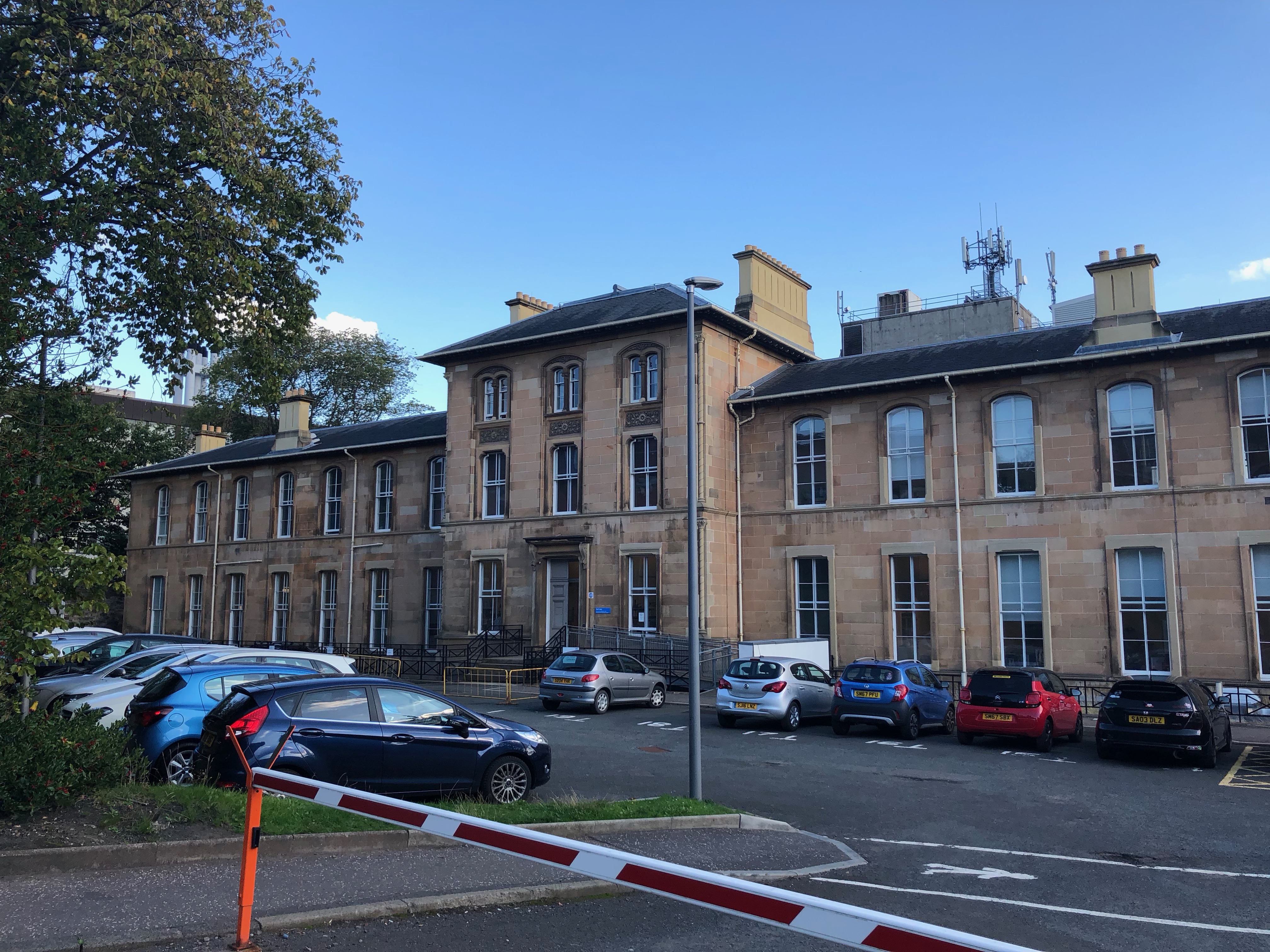 Edinburgh, Lauriston Place, Chalmers Hospital Wikidata has entry Q17810795 with data related to this item.